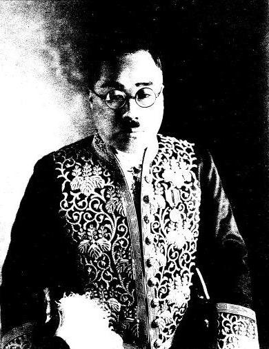 Chūai Asayama